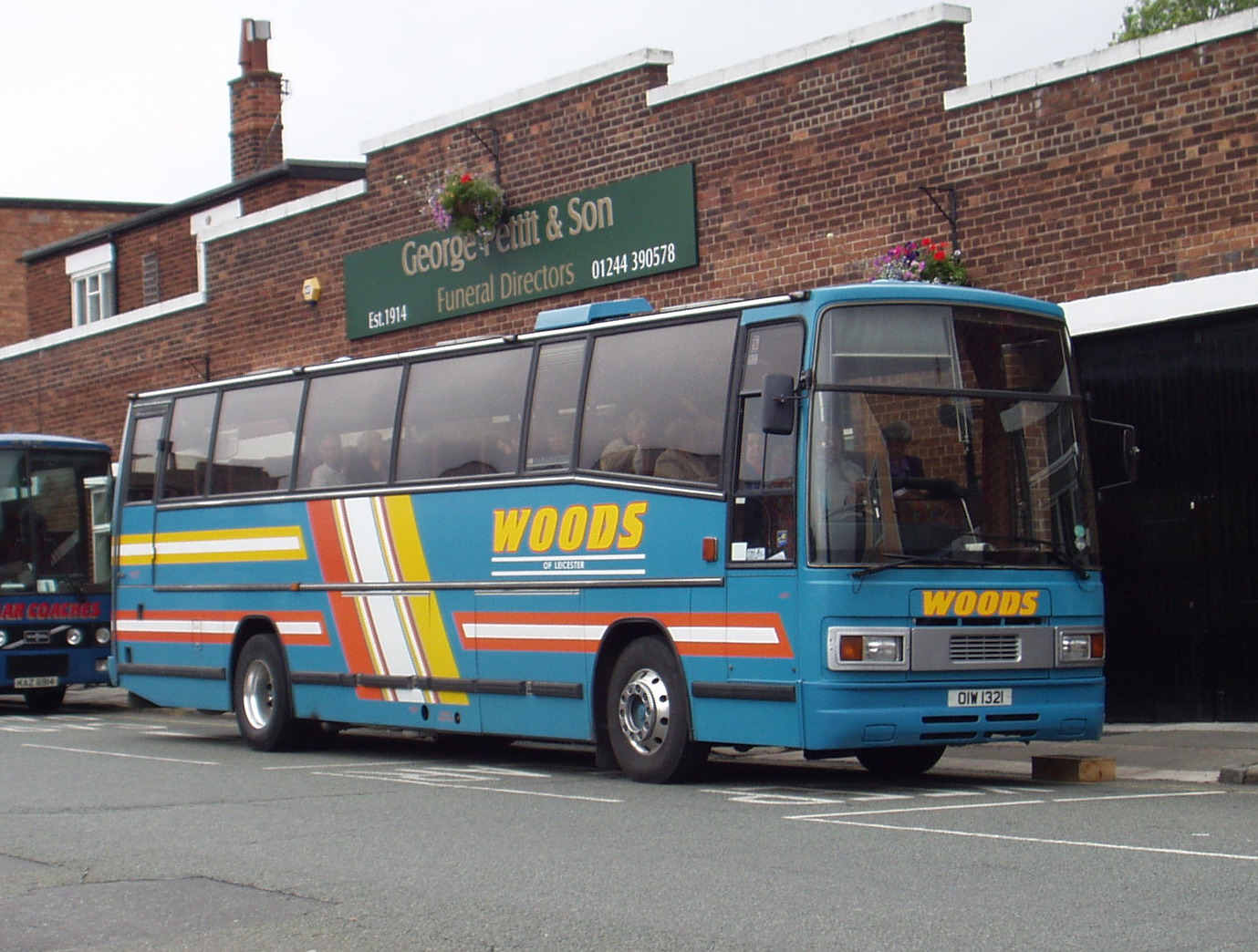 Plaxton Paramount II 3500 coach on Volvo chassis, Woods of Leicester, pictured in Chester.